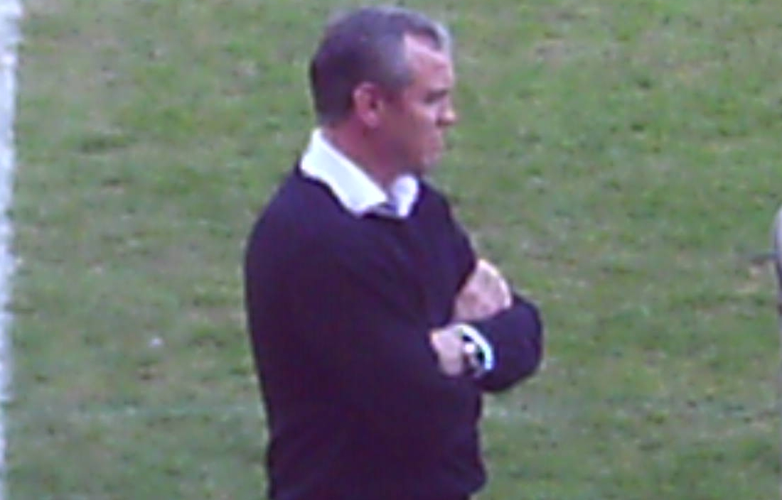 Brian Mac at Harlequins vs St Helens in the European Super League.